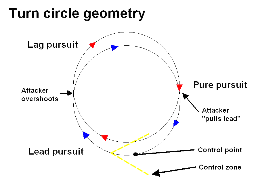 The geometry of "turn circle" in fighter combat. This is an ideal diagram in which both planes are travelling the same turn rate, the same turn radius, and both at maximum sustainable load, (real world results may vary), to illustrate the concept. Note the closure during lead pursuit, almost colliding as the overshoot occurs, and then the reversal of closure during lag pursuit, with the greatest nose/tail separation when the attacker pulls lead.